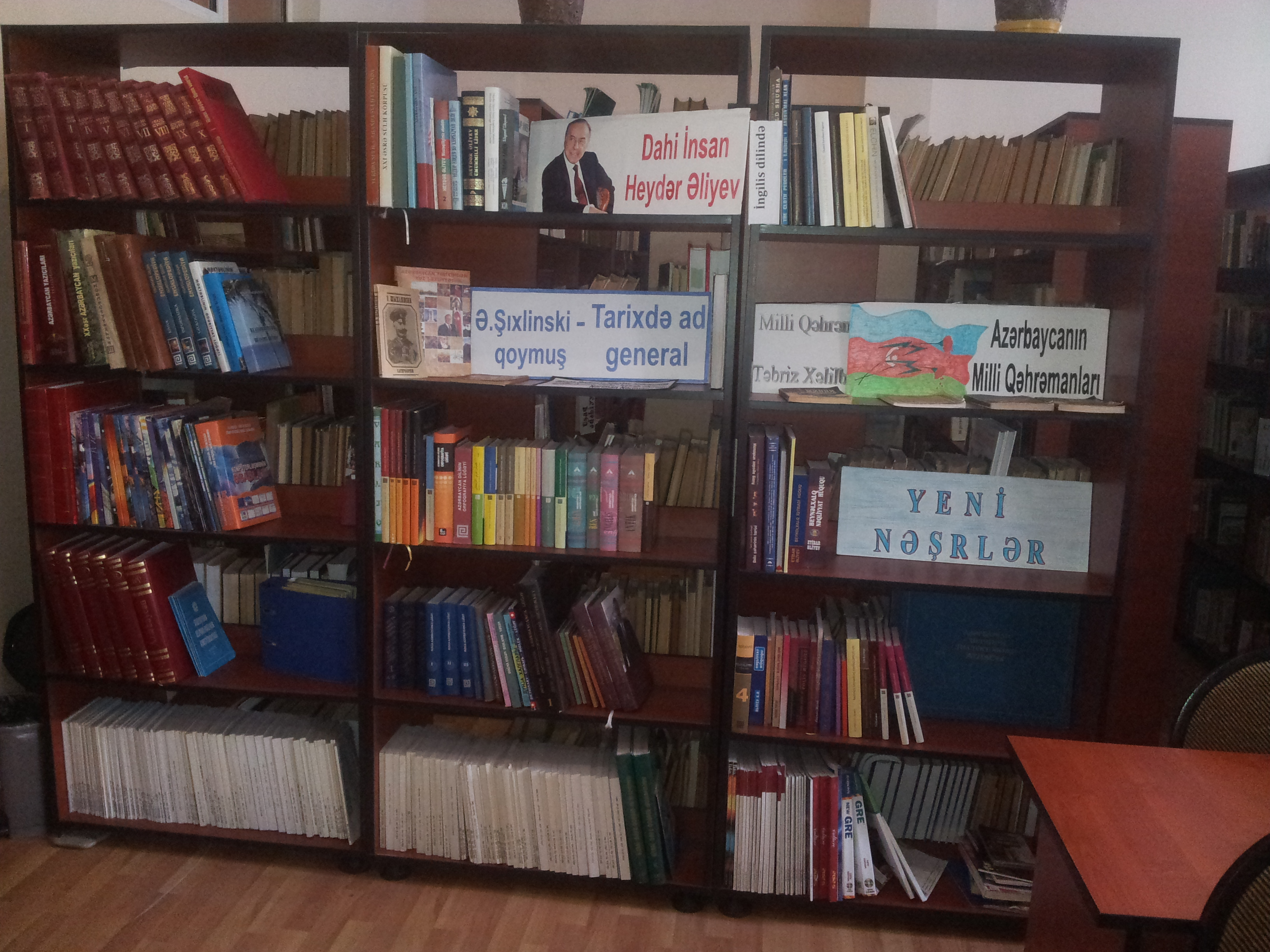 books